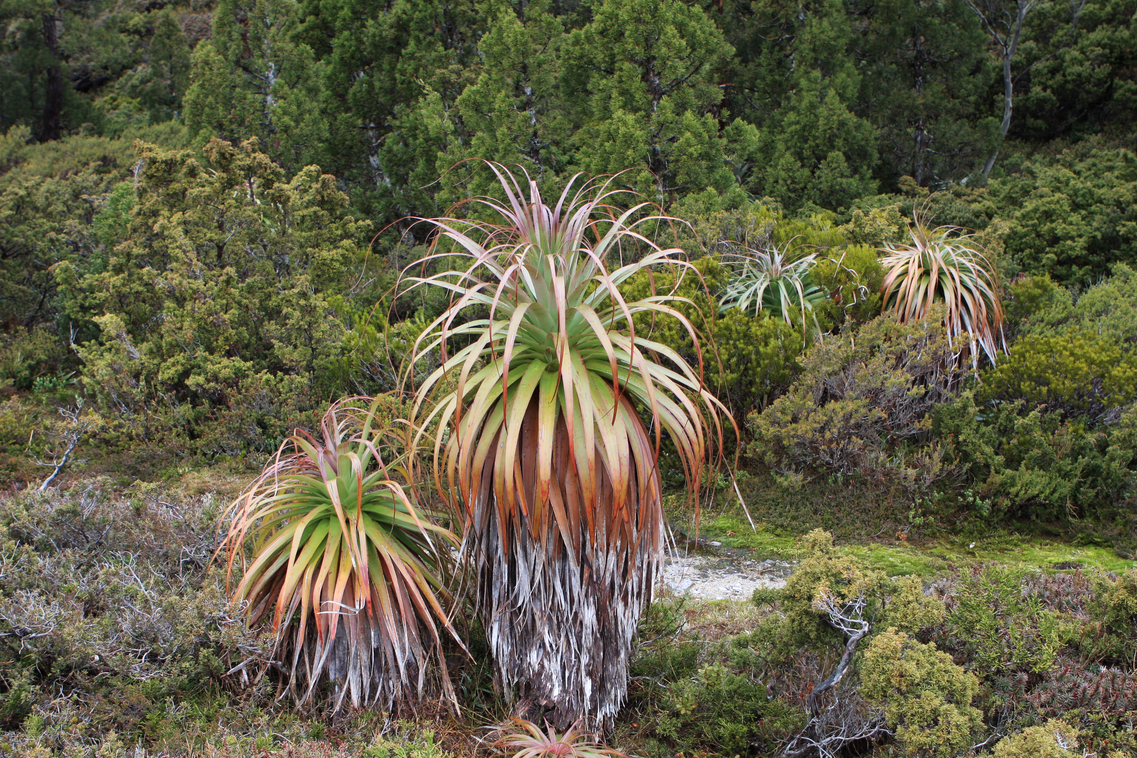 Day 1 of the Overland Track Richea pandanifolia (Pandani or Giant Grass Tree) These are remarkable plants, they are growing in quite a harsh alpine area. It is endemic to Tasmania. Australia oz2009 057